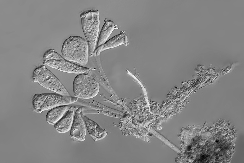 Inhabitants from activated sludge from a sewage treatment plant.